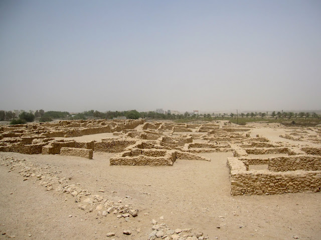 Remains of Saar temple, a temple dating to the Dilmun era of Bahrain's history.